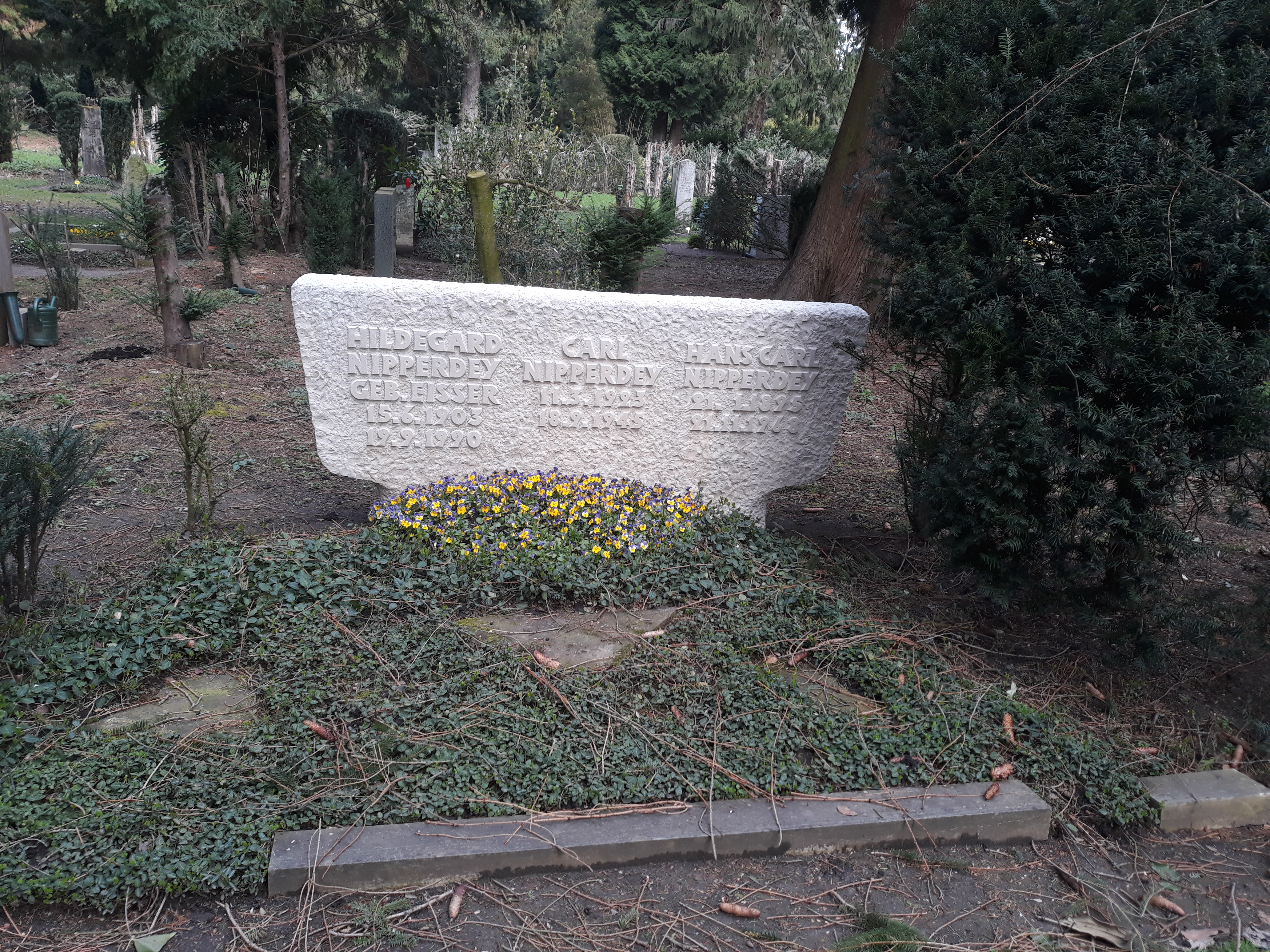 The tomb of German lawyer, Professor of Labor law and first president of Bundesarbeitsgericht (Federal Court of Labour) Hans Carl Nipperdey, Cologne, Sürdfriedhof (Southern Cemetery), Germany.